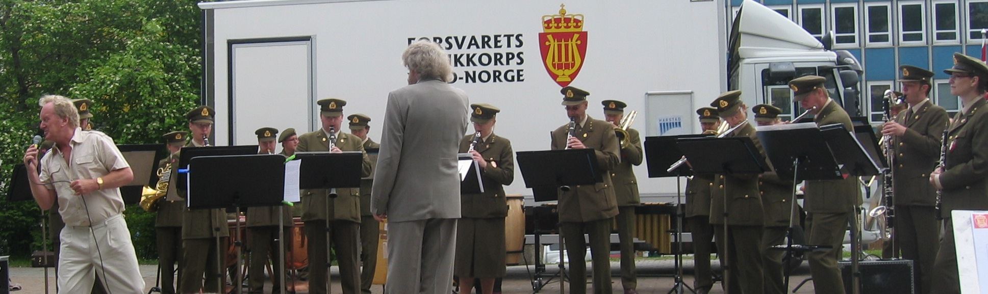 The Norwegian military band "Forsvarets Musikkorps Nord-Norge"